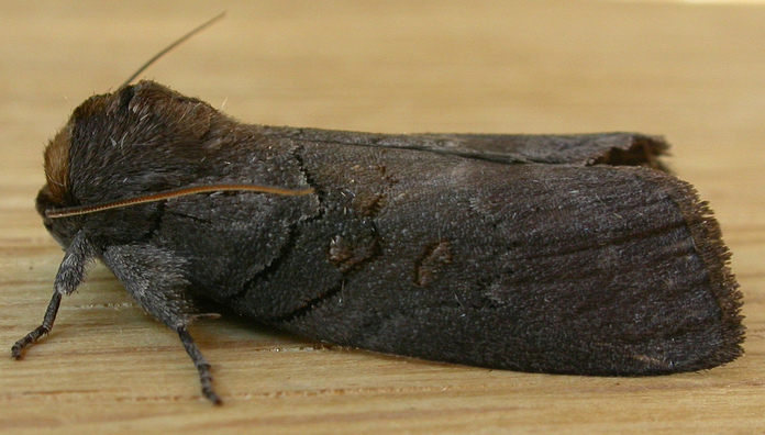 Discophlebia_lucasii